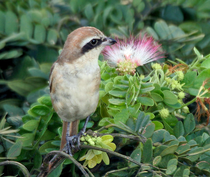 Brown Shrike Lanius cristatus in Kolkata, West Bengal, India.